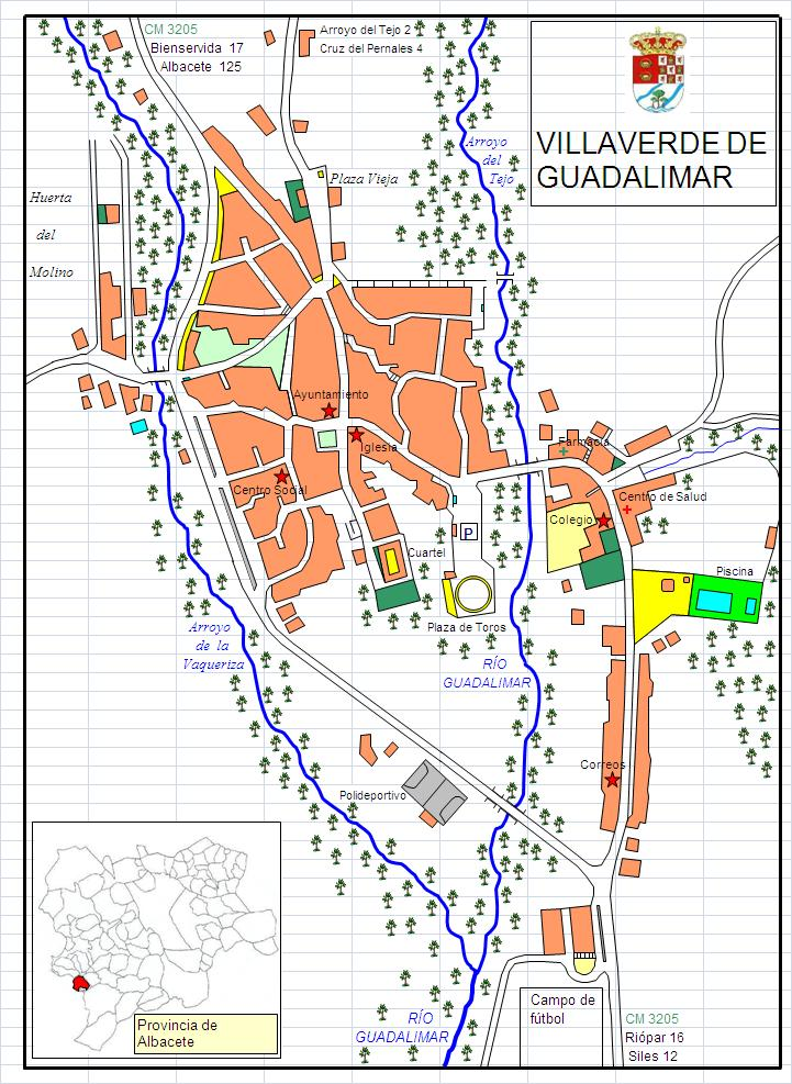 City map of Villaverde de Guadalimar, province of Albacete, Spain